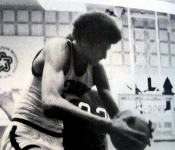 Lebanon High School junior Sam Bowie grabbing a rebound as a member of the 1977-78 Lebanon Cedars boys' varsity basketball team.